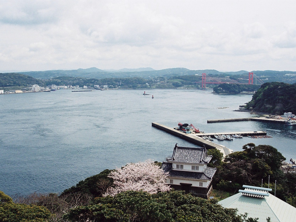 View of Hirado from the castle of Hirado (Hirado, Japan)